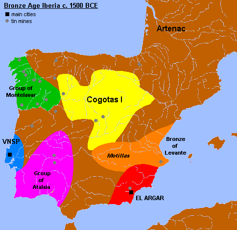 Map of Iberian Middle Bronze Age c. 1500 BCE, showing the main cultures, the two main cities and the location of strategic tin mines. VNSP stands for Vila Nova de São Pedro. Author:Sugaar Sources: diverse (notable: F. Jordá Cerdá et al. History of Spain 1: Prehistory. Gredos ed. 1986. ISBN: 84-249-1015-X